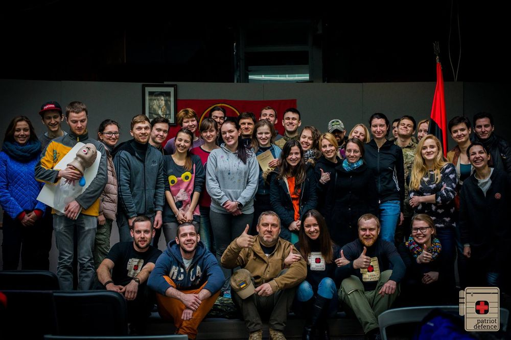 Команда «Захисту Патріотів»